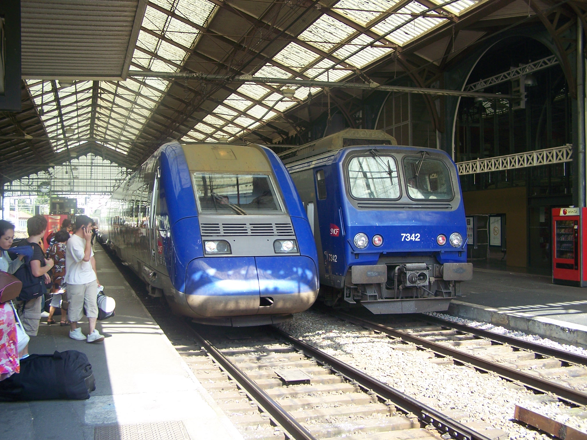 Tracks and platforms in Bayonne station, in Pyrénées-Atlantiques, France. Arriving, a regional train bound for Bordeaux (and another waiting for its further departure to Tarbes in Hautes-Pyrénées).